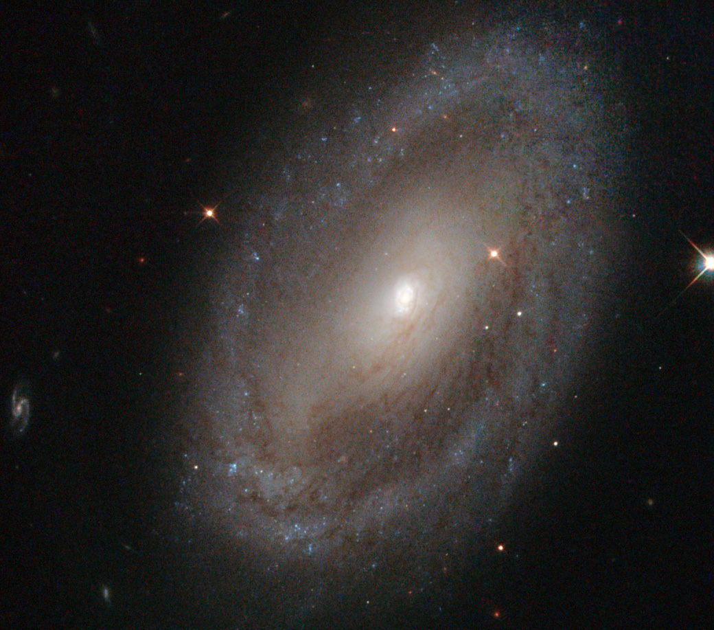 This is the spiral galaxy NGC 3185, located some 80 million light-years away from us in the constellation of Leo (The Lion). The image shows the galaxy’s spiral arms, which can be traced from the centre of the galaxy out towards the rim, where they appear to meet a sparkling blue disc. At the centre of NGC 3185 is a small but very bright nucleus containing a supermassive black hole. Black holes like this one can have masses many thousands of times that of the Sun, and they become active when matter falls towards them. When this happens the black hole lights up, sending away streams of particles and radiation at almost the speed of light. NGC 3185 is a member of a small, four-galaxy group called Hickson 44, which has a celebrity in its midsts — the group is also home to another spiral galaxy called NGC 3190. NGC 3190 may be very familiar to you; the technology giant Apple Inc. used a blue-tinted image of it as a desktop image for one of its operating systems. These data were unearthed from the NASA/ESA Hubble Space Telescope Legacy Archive by contestant Judy Schmidt, who entered a version of this image into the Hubble’s Hidden treasures image processing competition.